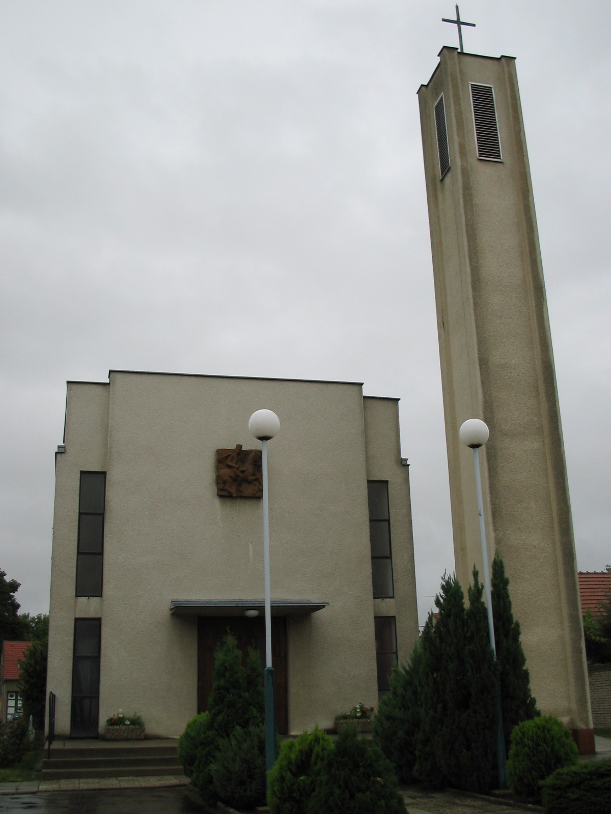 Kozojídky, Hodonín District, Czechia.